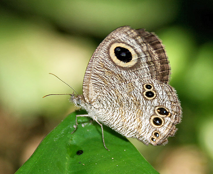 Common Five-ring Ypthima baldus at Narendrapur near Kolkata, West Bengal, India.